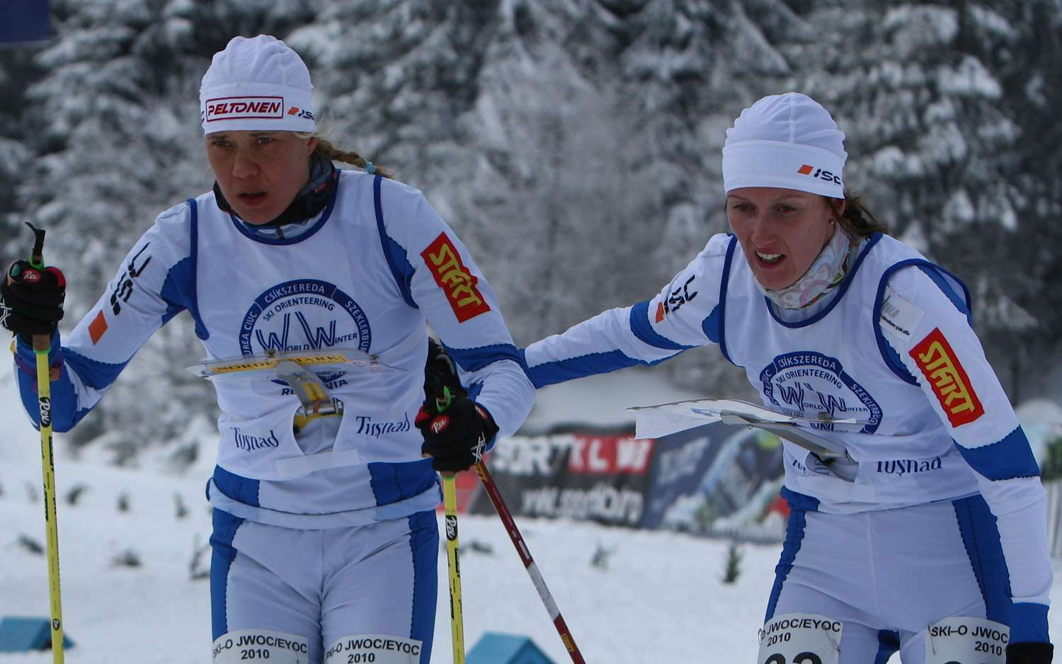 European Ski-Orienteering Championship 2010, (8th - 15th February, 2010; Miercurea Ciuc, Romania) Liisa Anttila (left) and Marttiina Joensuu (right) from Finland at Women's relay